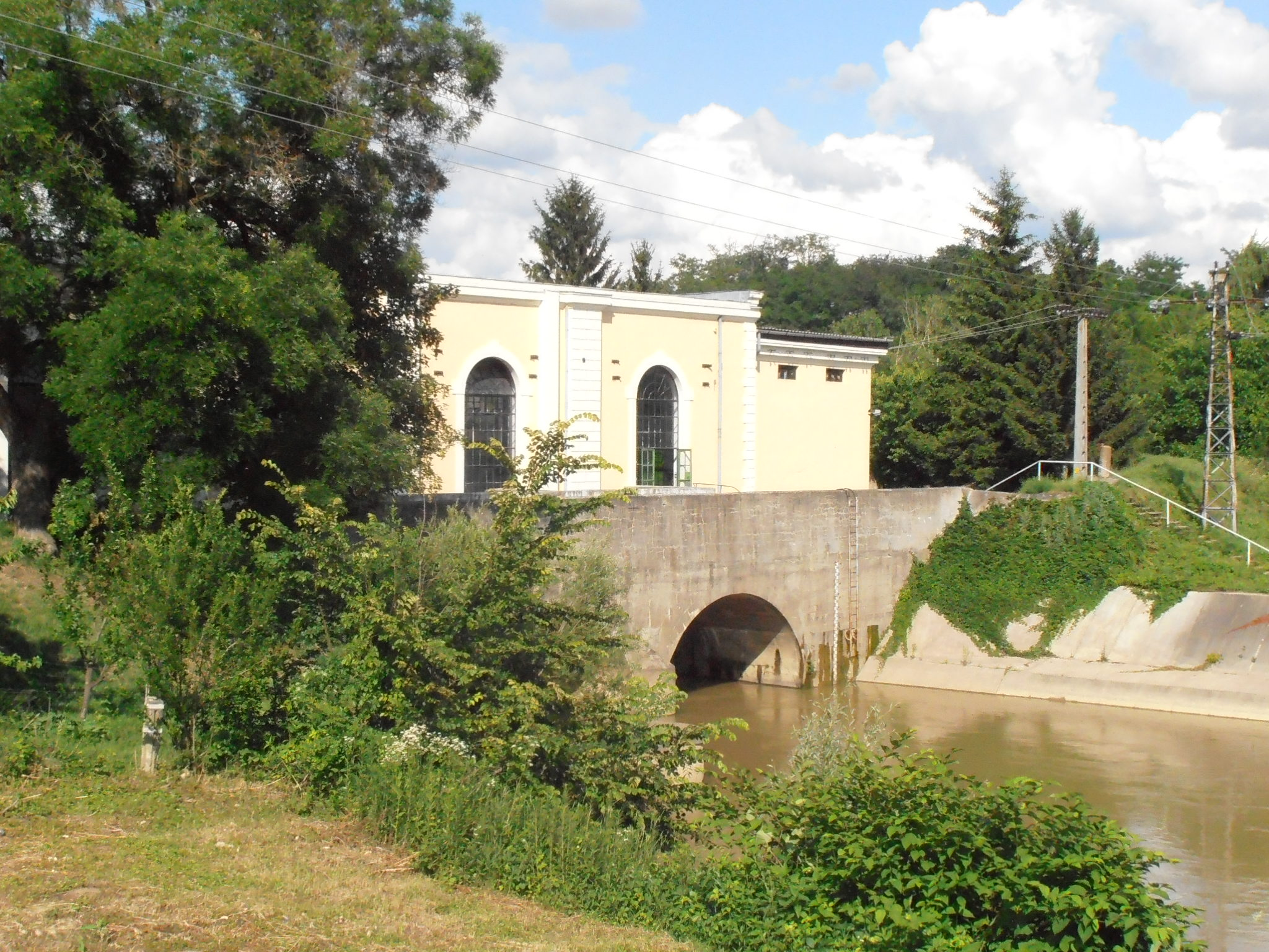 Hydroelectric power plant in Gibárt, Hungary